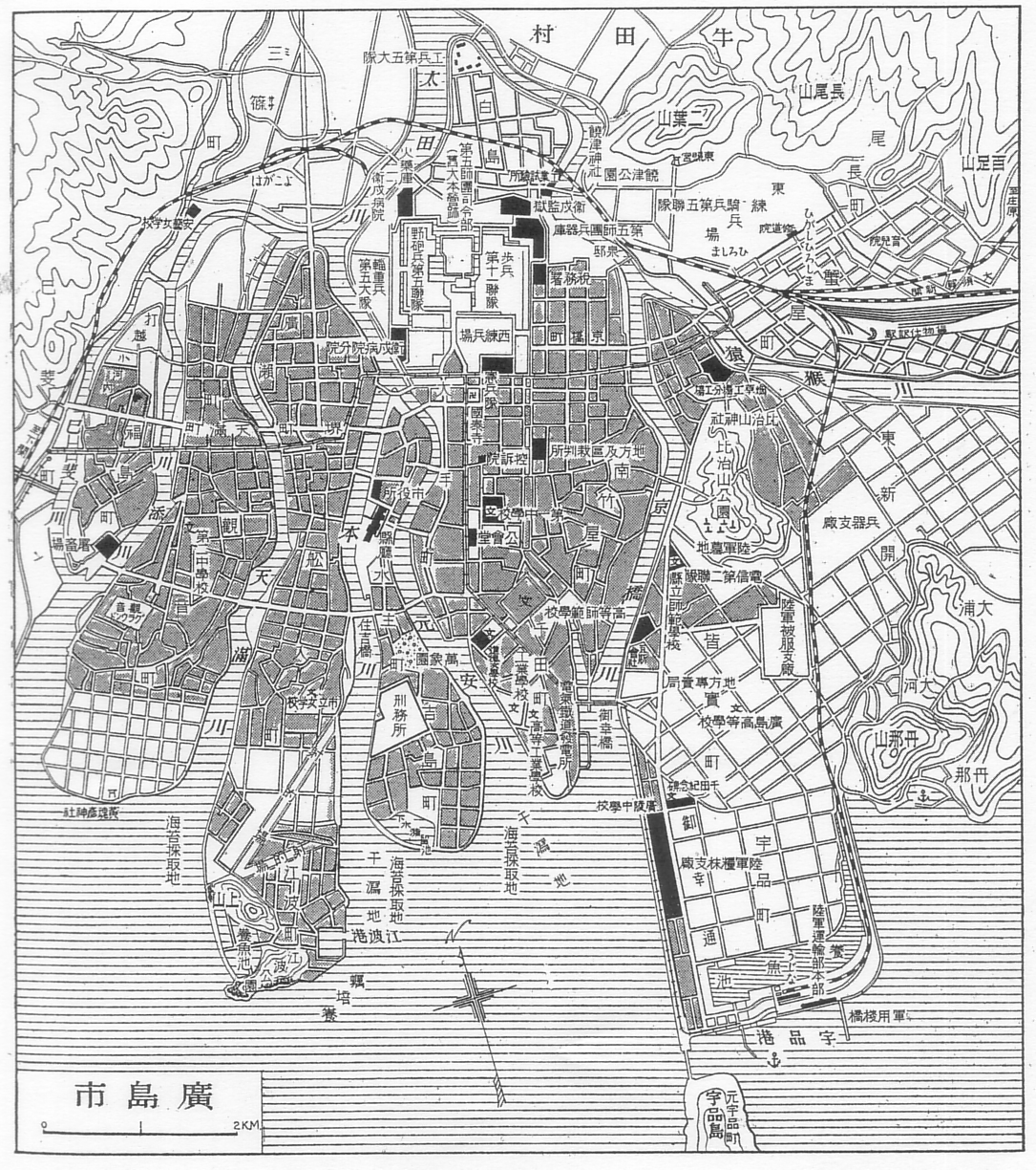 Hiroshima map circa 1930